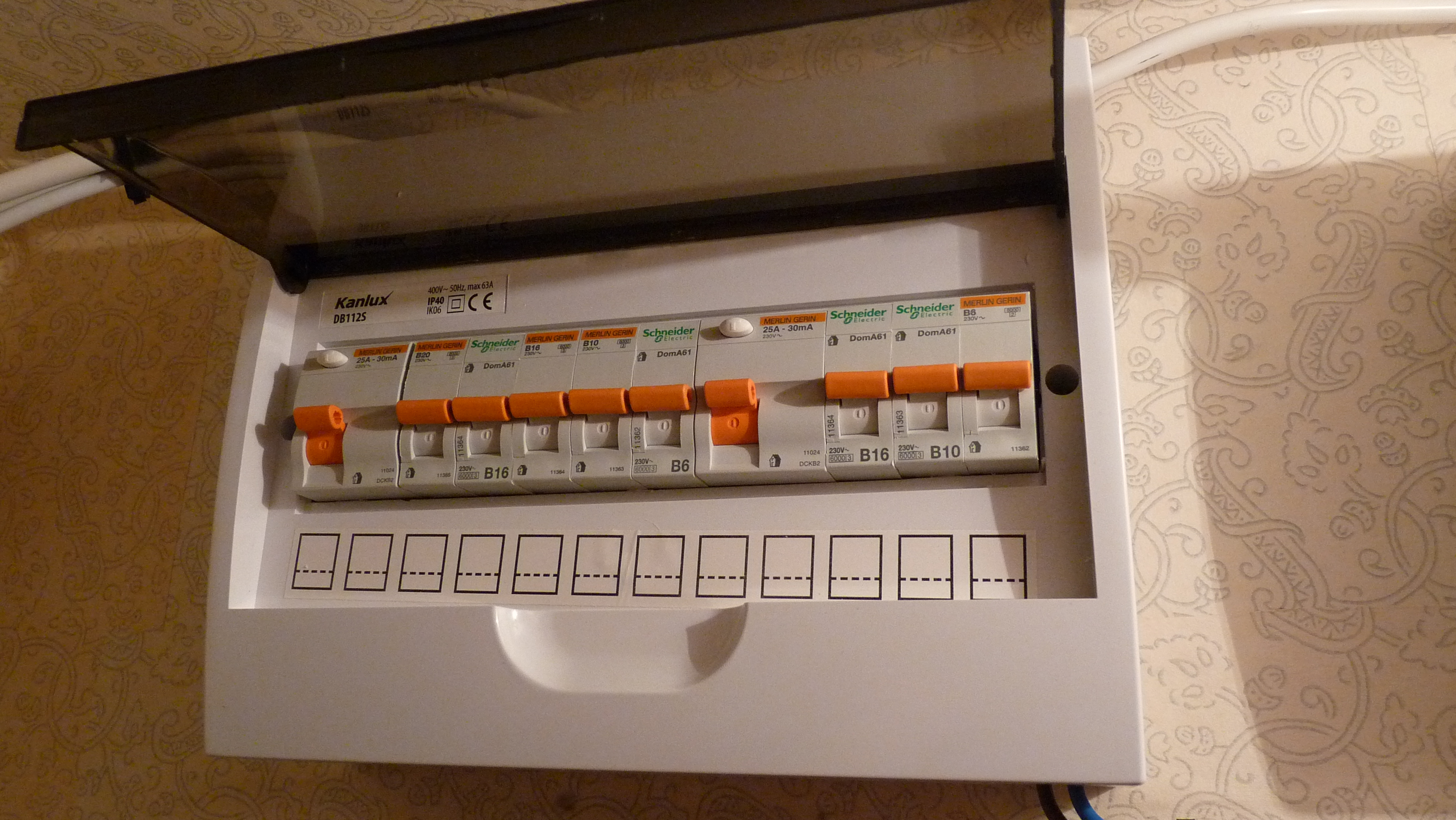 Installing of fuse box is finished, everything is checked. Let's have a look one more time: in difference from Swedish electricians, circuit breakers at all lines there were "adjusted" to their load instead of stupidly sticked "C10" circuit breakers to all lines. After work is finished and cover is installed, we can return the voltage. NB! Don't forget to hide the wires in ducts or conduit!